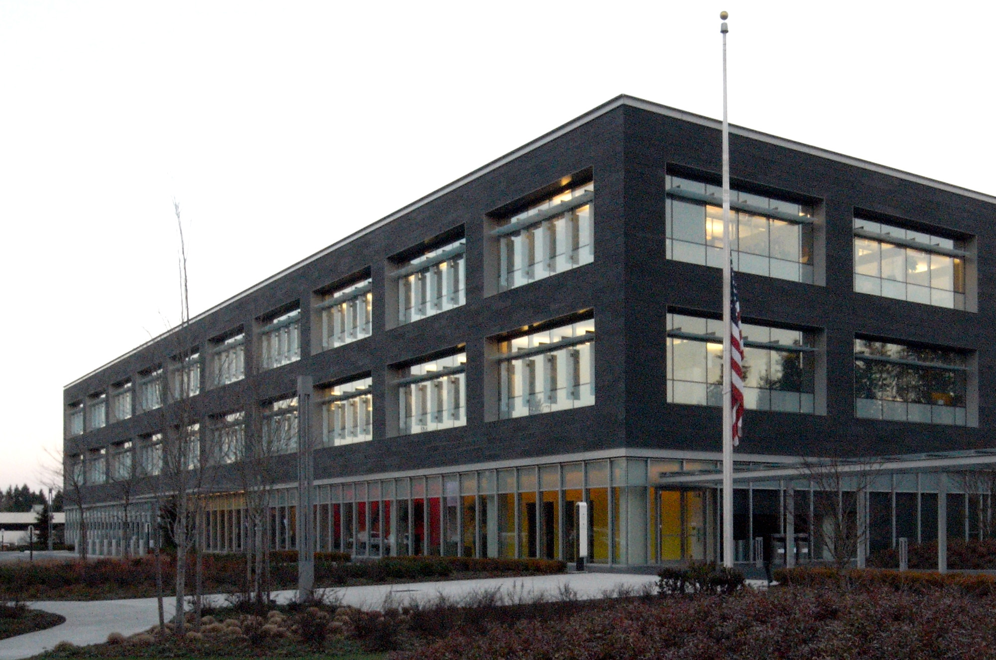 The building of Nintendo of America